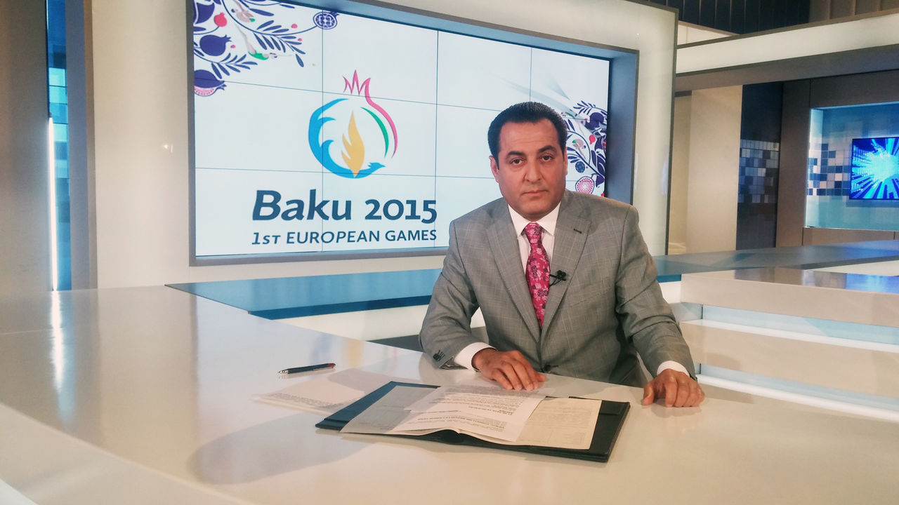 Original photo